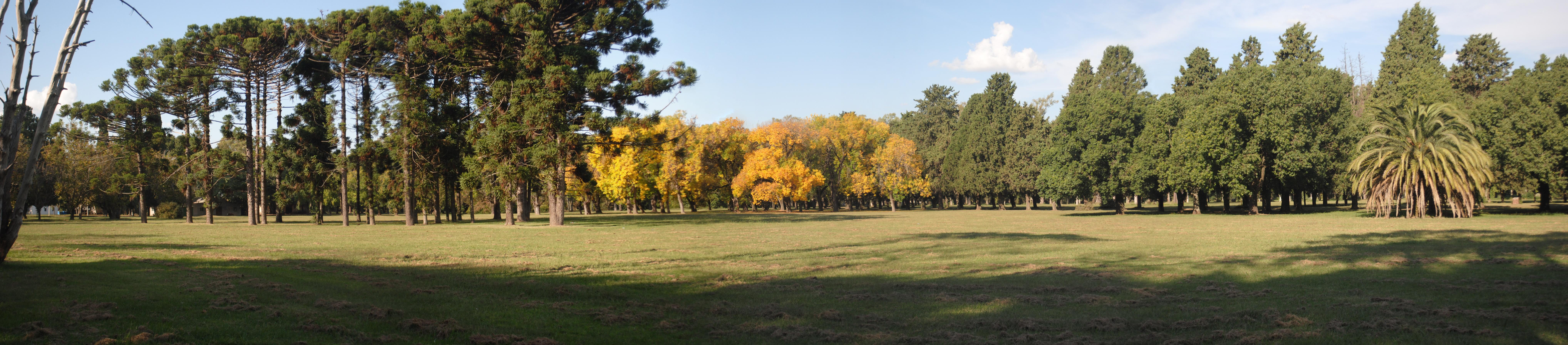 Autumn panoramic view of Parque Villarino, Zavalla, Santa Fe province, Argentina